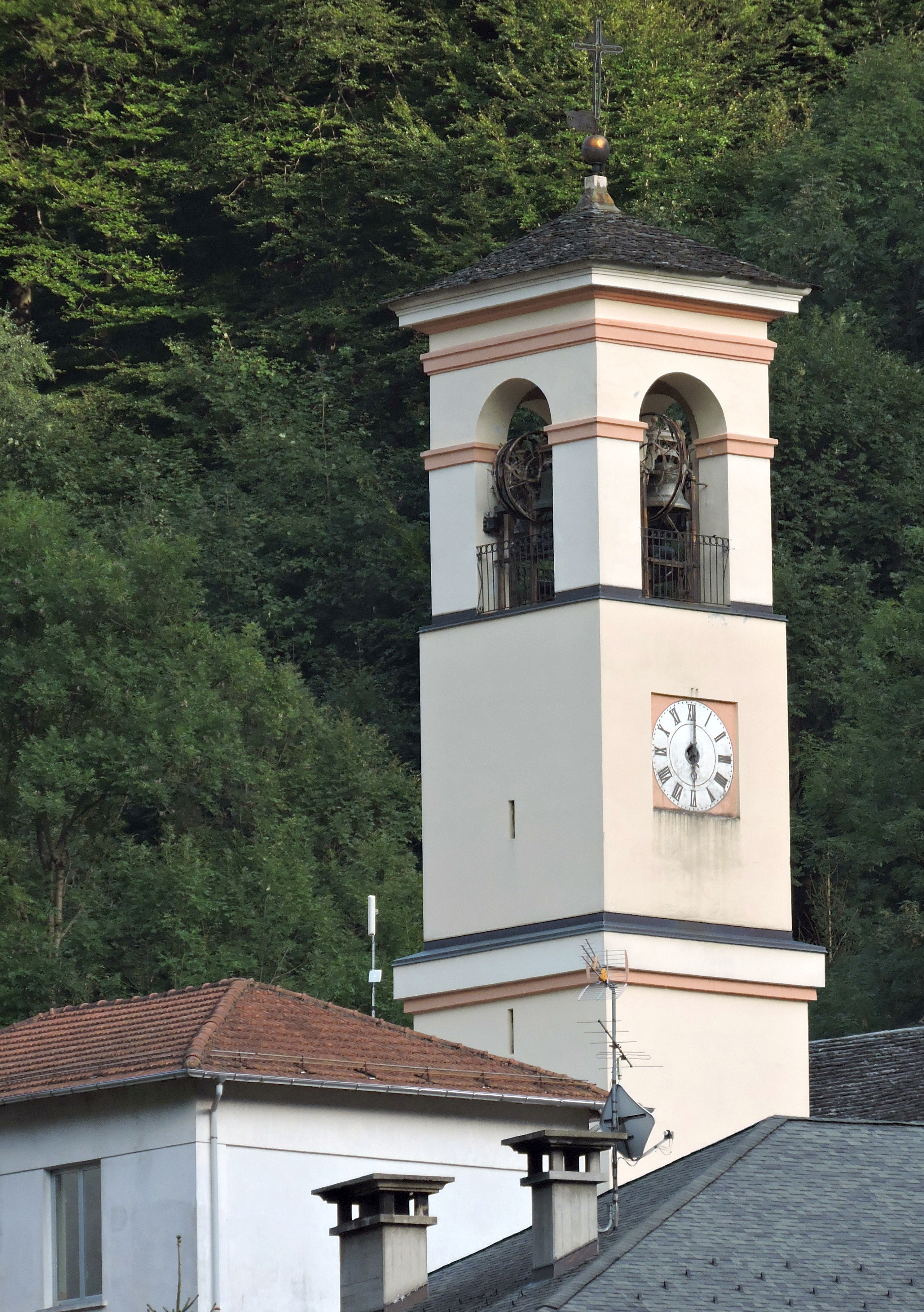 Fornero (Valstrona, Italy): bell tower